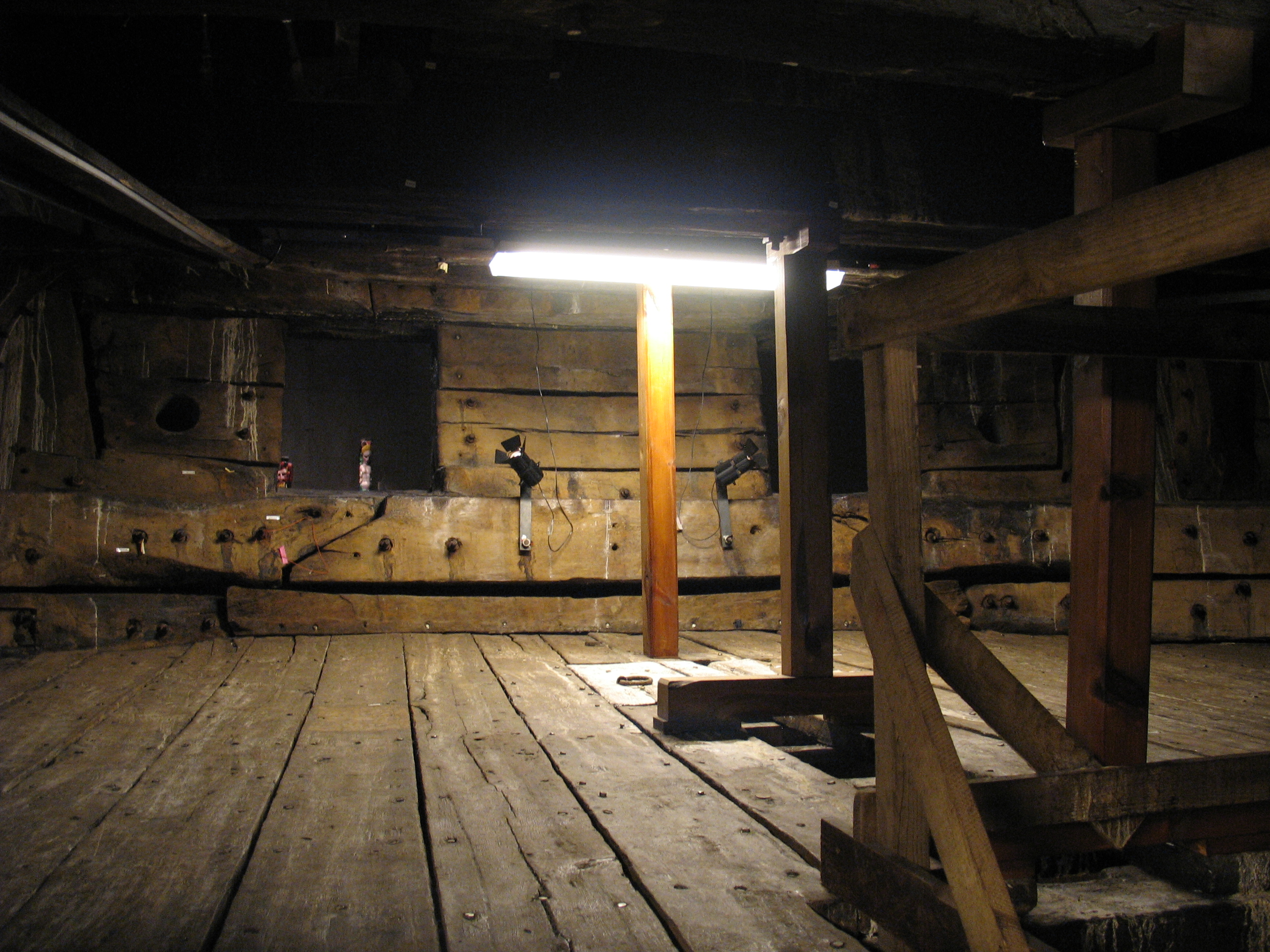 The aft gun room on the orlop of the warship Vasa looking aft.